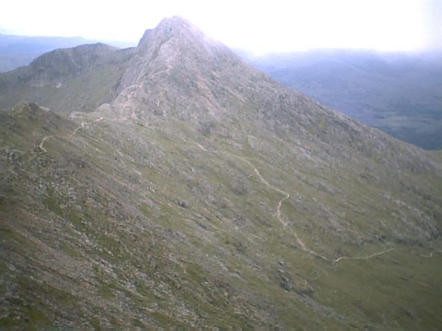 my photo of Y Lliwedd